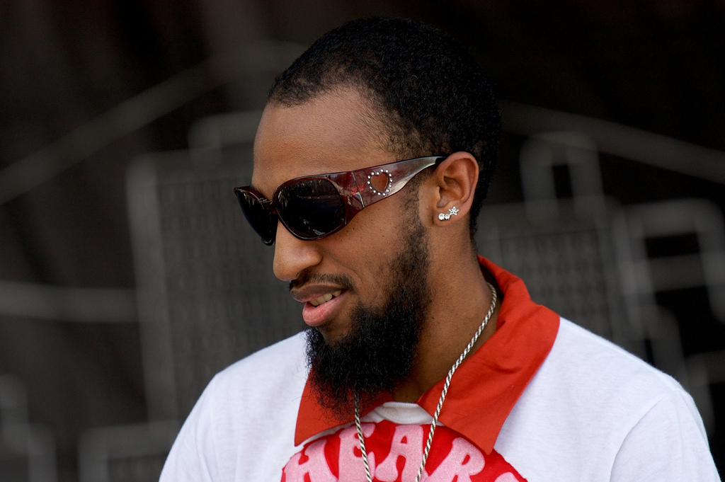 Jonathan Scales performing at the Béle Chére Festival in Asheville, North Carolina on July 23, 2010. This photo was taken on July 23, 2010 using a Canon EOS Digital Rebel XSi.